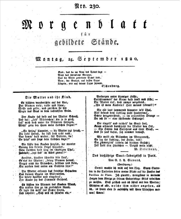 Die Mutter und ihr Kind by W. Dobelbaur - Morgenblatt für gebildete Leser, 230, p. 921Text used by Anton Bruckner for his cantata Vergißmeinnicht, WAB 93